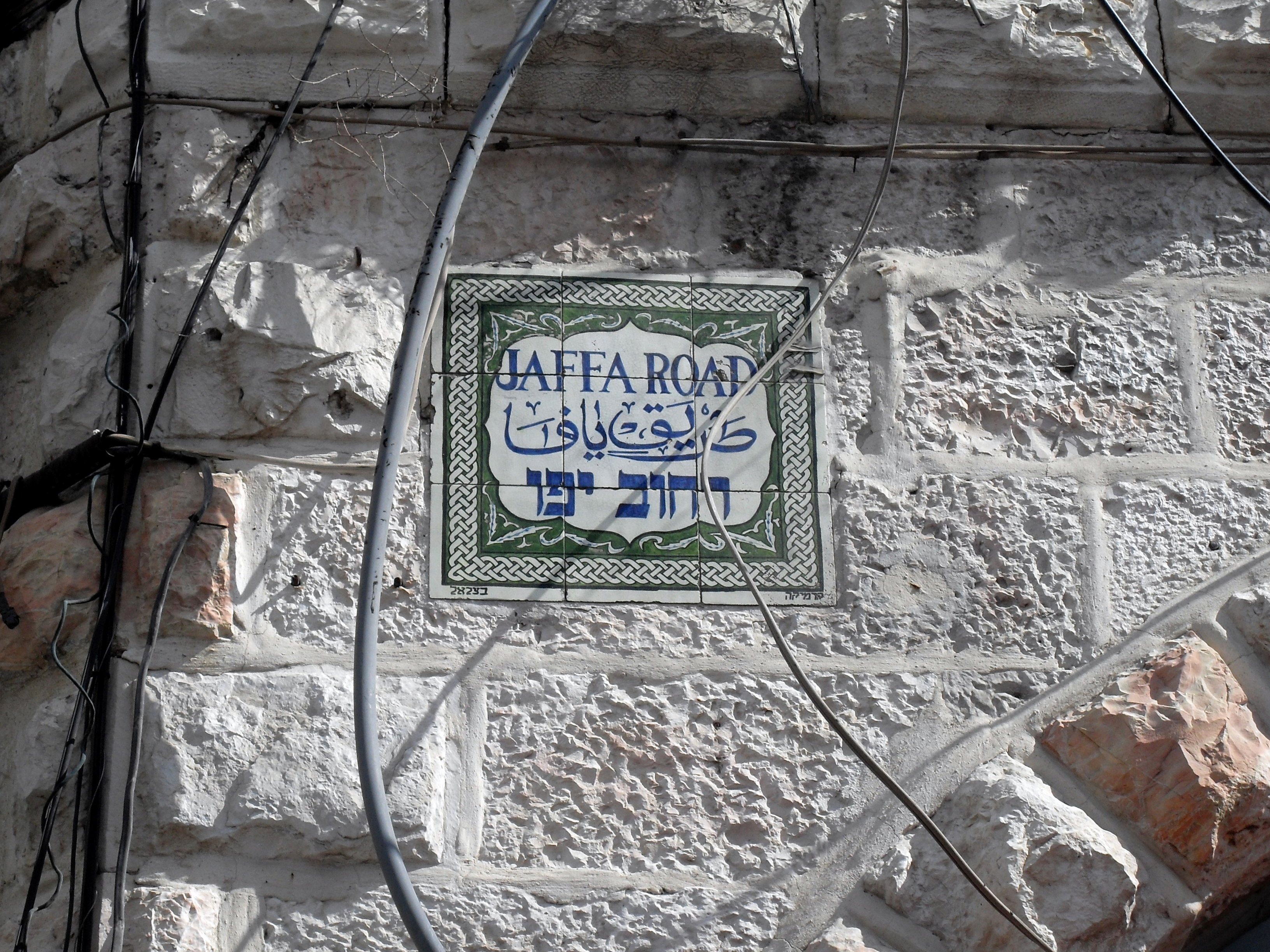 Jerusalem Bezalel British Mandate Jaffa road sign